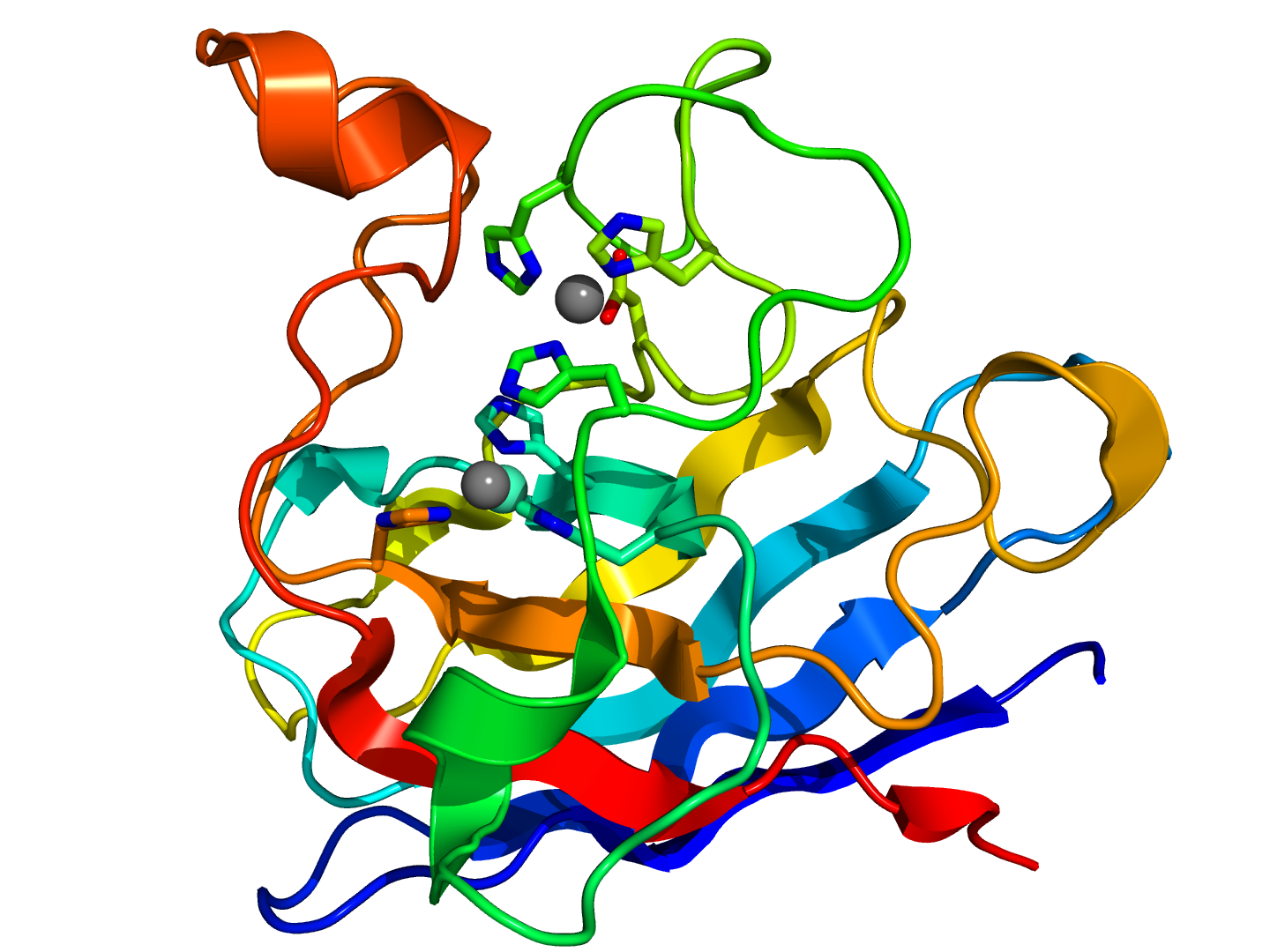 Crystallographic structure of human SOD1 based on PDB 2VR6 crystallographic coordinates.